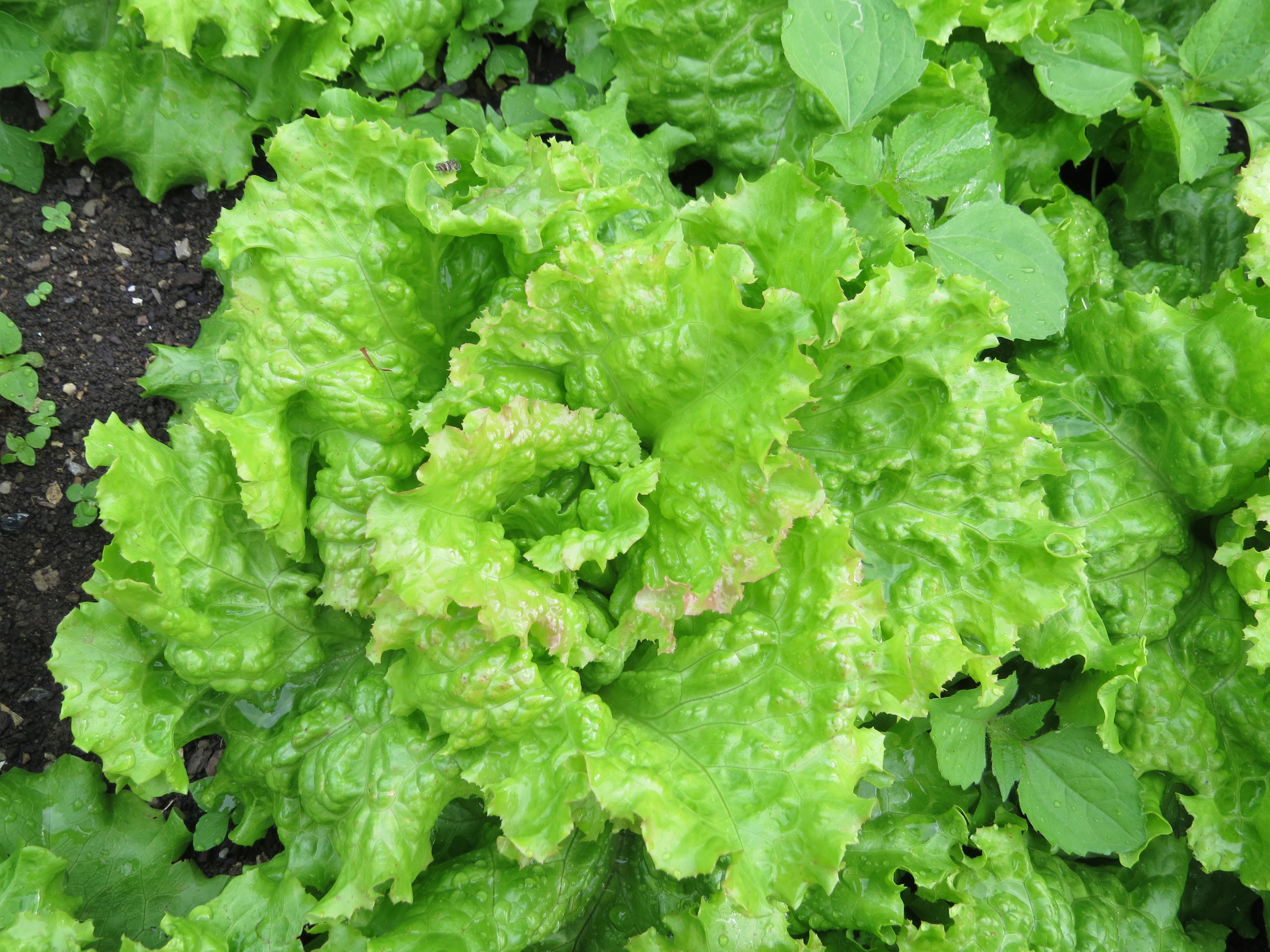 Lactuca sativa (garden lettuce) at Bichlhäusl in Frankenfels, Austria